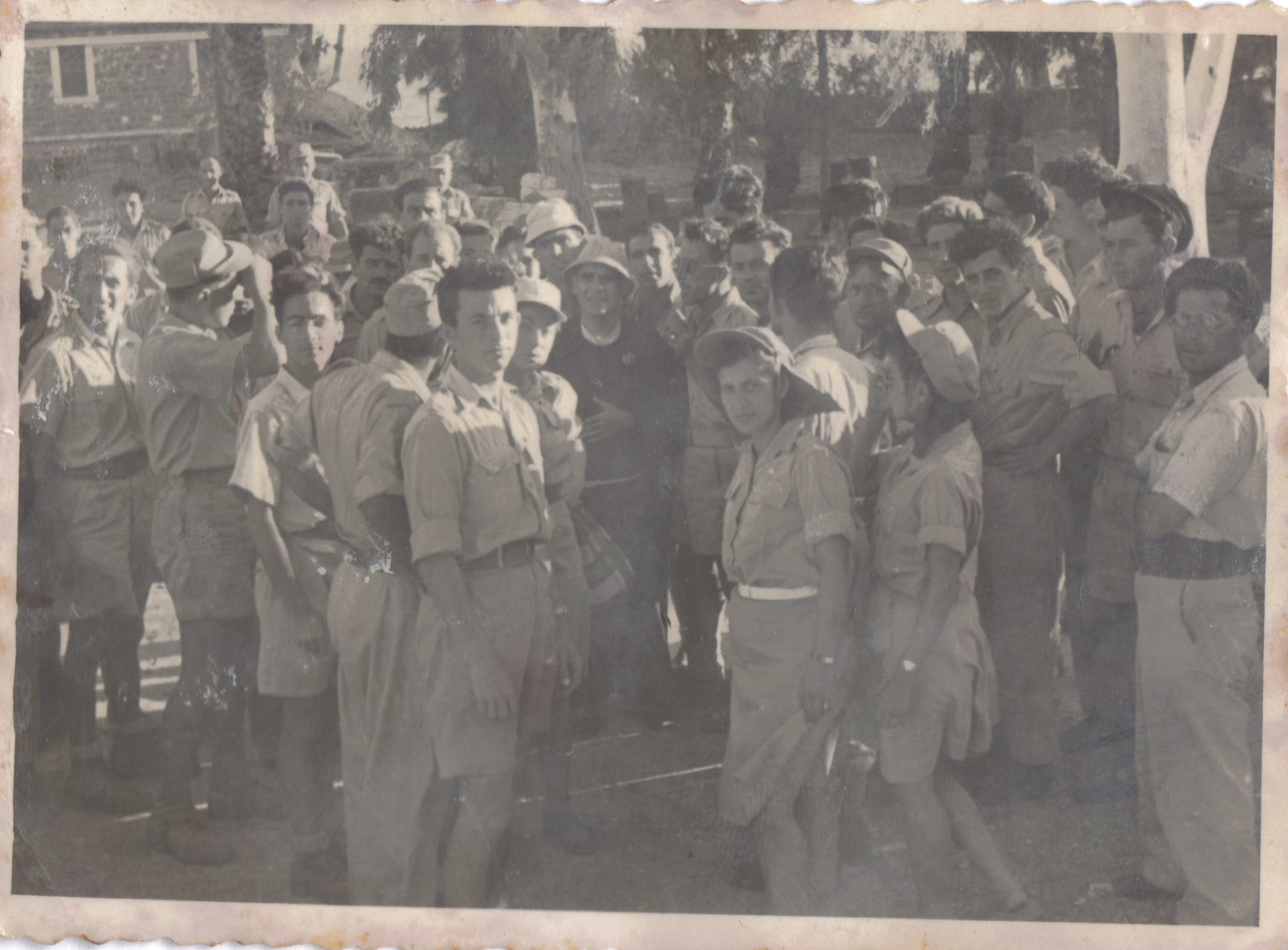 Israeli soldiers from Golani Brigade in Kibbutz Ramat Rachel (SE of Jerusalem) at the end of the 1948 Israel-Arab War.